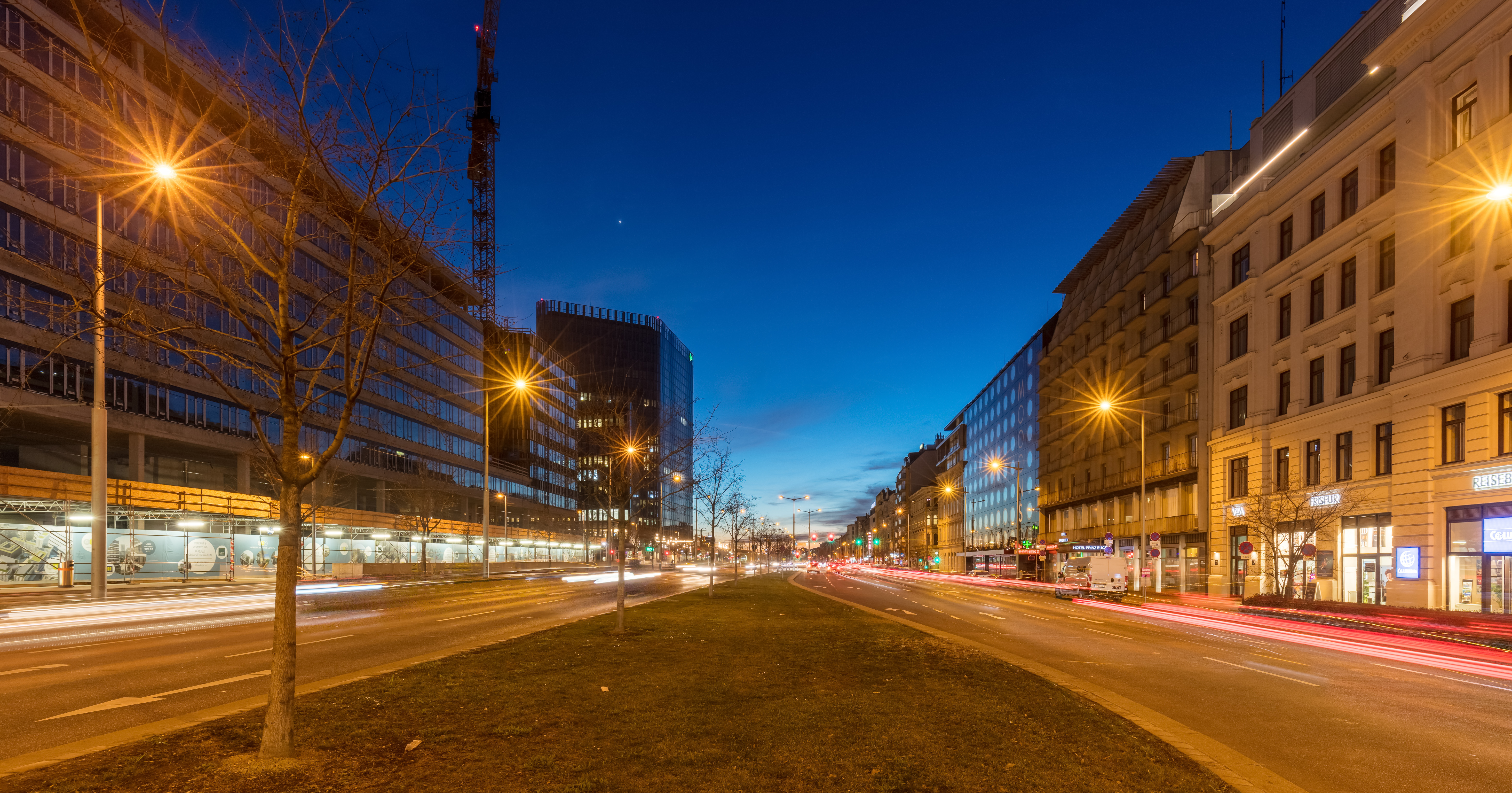 Wiedner ring, Vienna, Austria